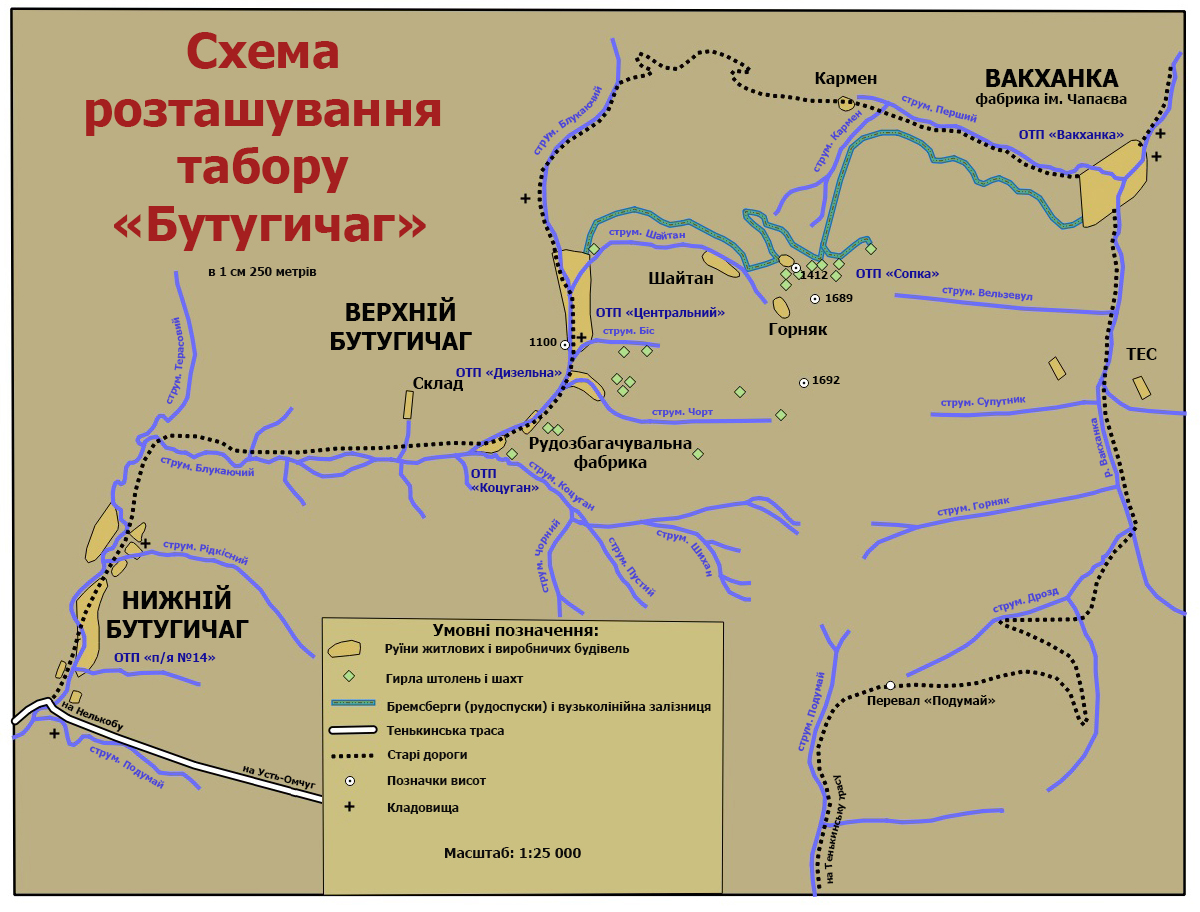 Map of a labor camp Butugichag in Russia, Magadan region